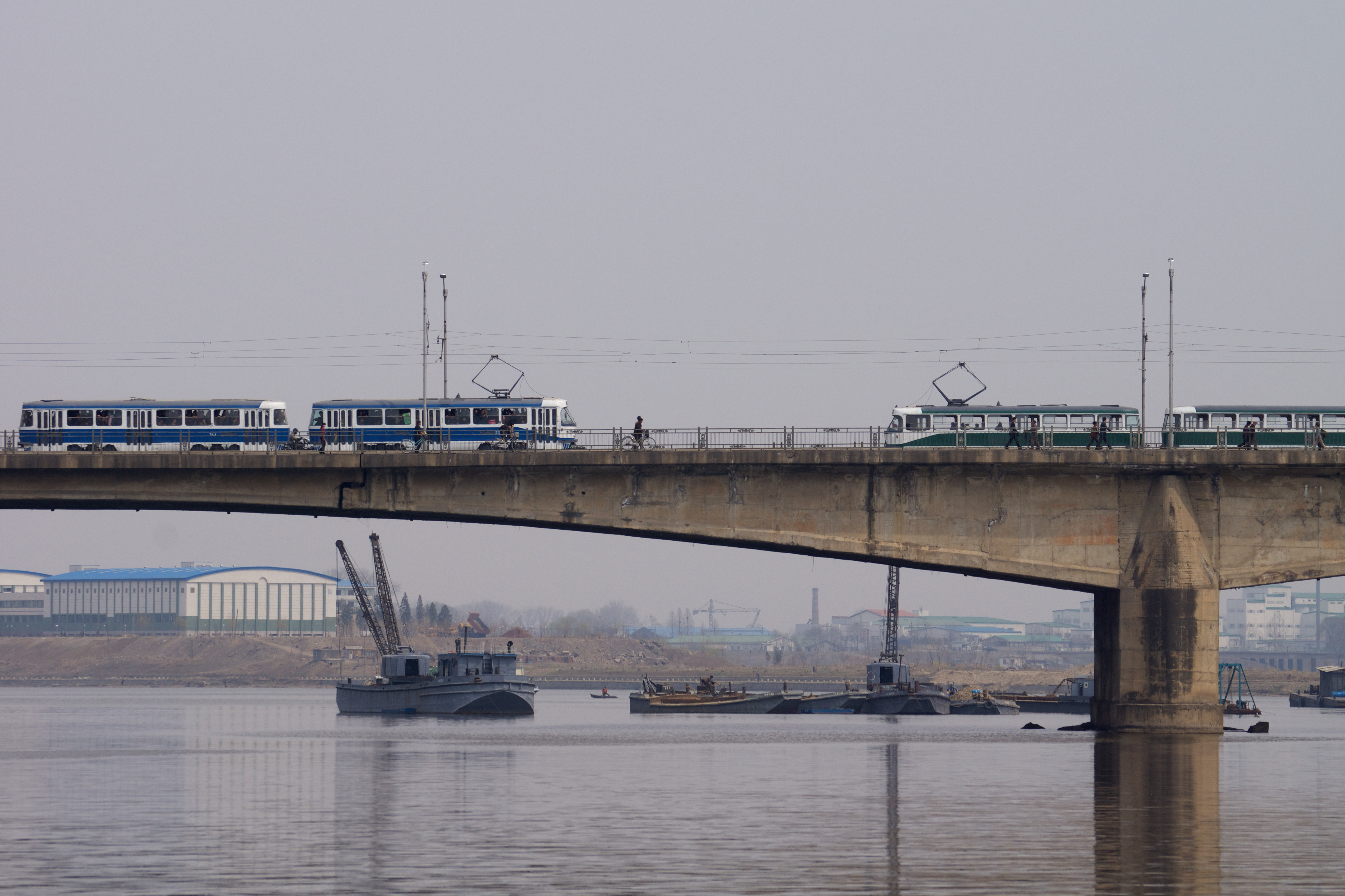 April 2012 trip to DPRK, North Korea for the 100th year birthday celebrations for Kim Il Sung - check out my North Korea blog at